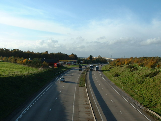 Looking West. Looking west along the A14 near Ipswich Suffolk the service area in the foreground is in square TM1840 and in the distance is the Orwell Bridge over the river Orwell.Taken from the same spot as the link. 280103